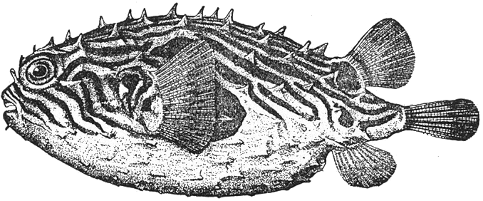 Burr-fish or swell-fish, Chilomycterus geometricus.